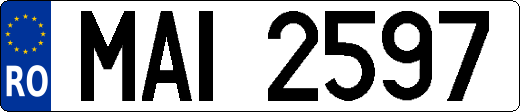 Romanian Ministry of Administration and Interior numberplate